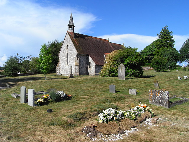 All Saints' parish church, Bradley, Hampshire, seen from the southwest